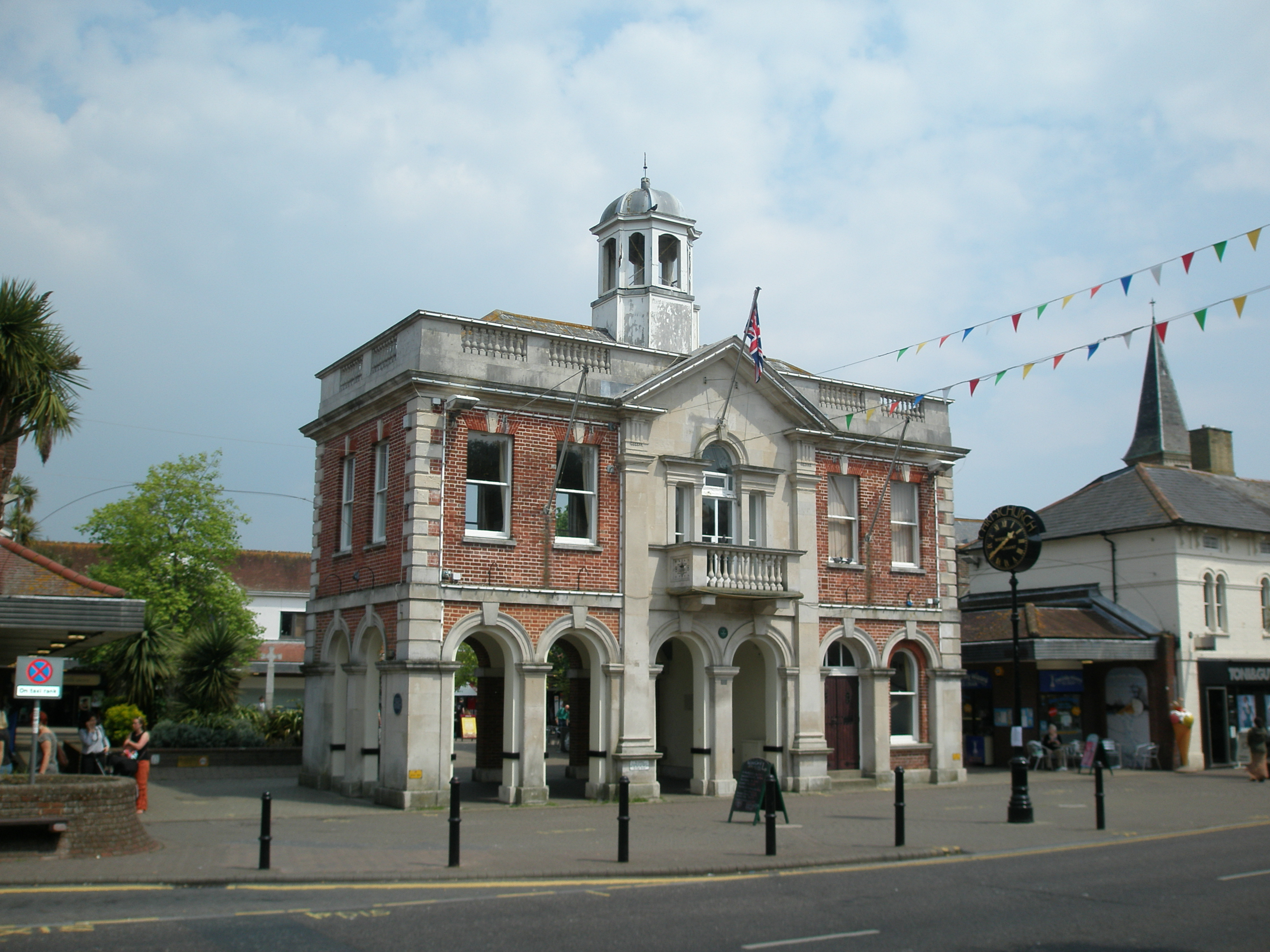 The mayor's parlour in Christchurch, Dorset. The mayor's parlour was the town hall until the civic offices were built in the mid 1970s. Part of it was demolished circa 1982. What remains is the original market hall which was moved to its present position in 1849. It was built in 1745 at the junction of Castle Street, Church Street and the High Street.